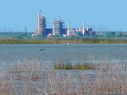 Paint Creek Power Plant located at Lake Stamford, Haskell County, Texas. Looking northeast from Ranch Road 600 bridge.